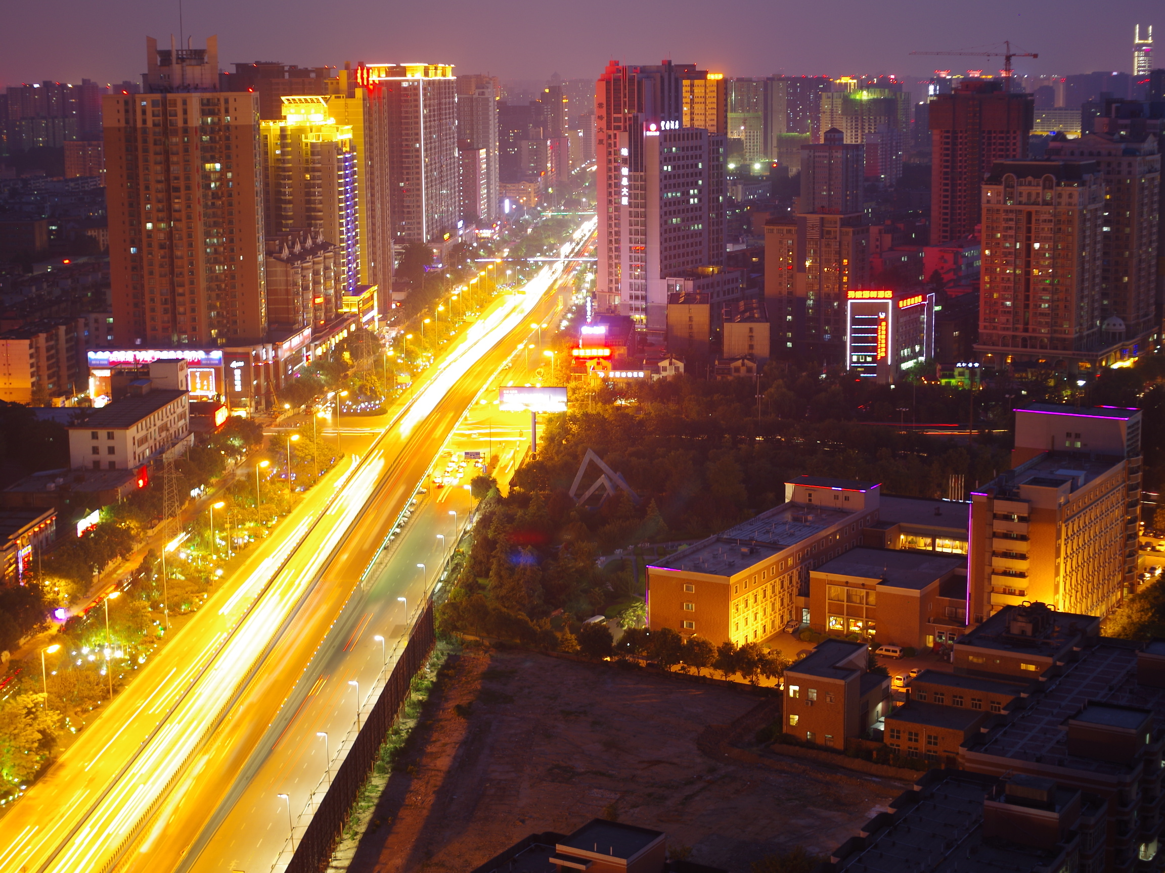 southeast part of Xi'an Erhuan Road (2nd Ring Road).